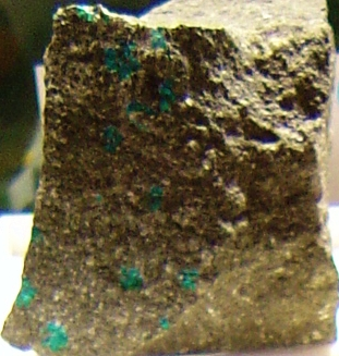 Sampleite I took this photo in october 2005